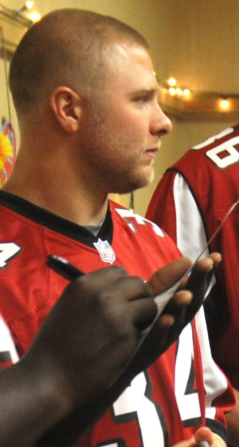 At the end of the first day of the National Guard Association of Georgia Conference, some of the Atlanta Falcons football players came out to show their love and support of our troops and their spouses. L-R: Phillipkeith Manley (#68), #34 Bradie Ewing, and #86 Chase Coffman